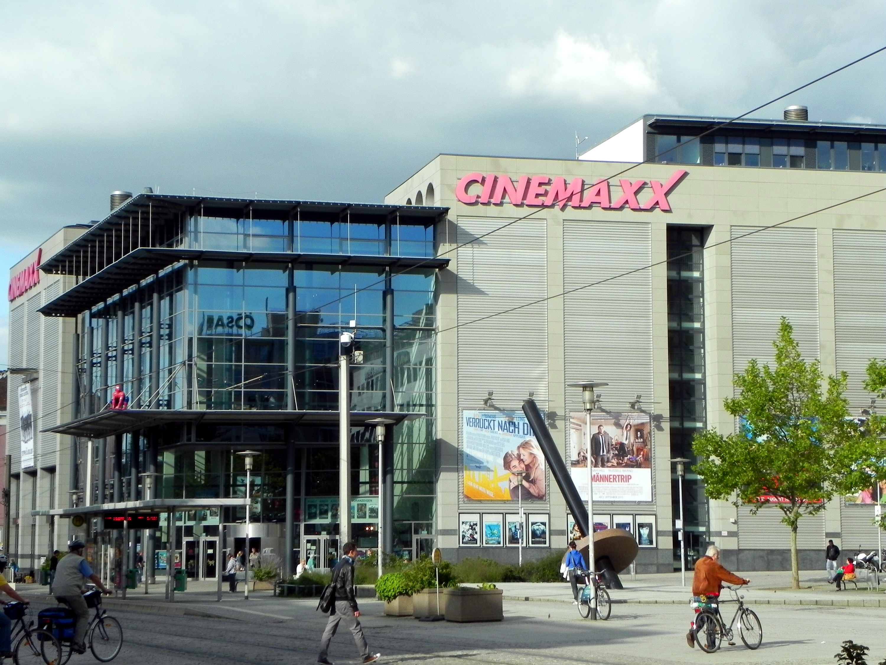 Cinemaxx Magdeburg